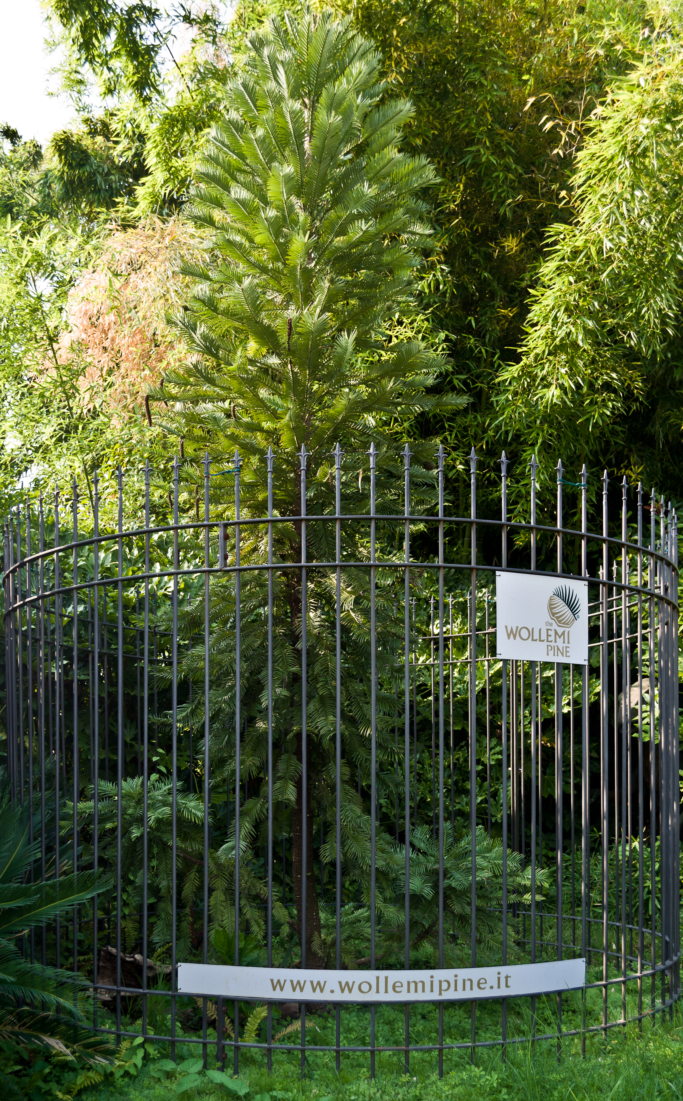 Wollemia nobilis located in the theme park Gardaland, Castelnuovo del Garda, Italy